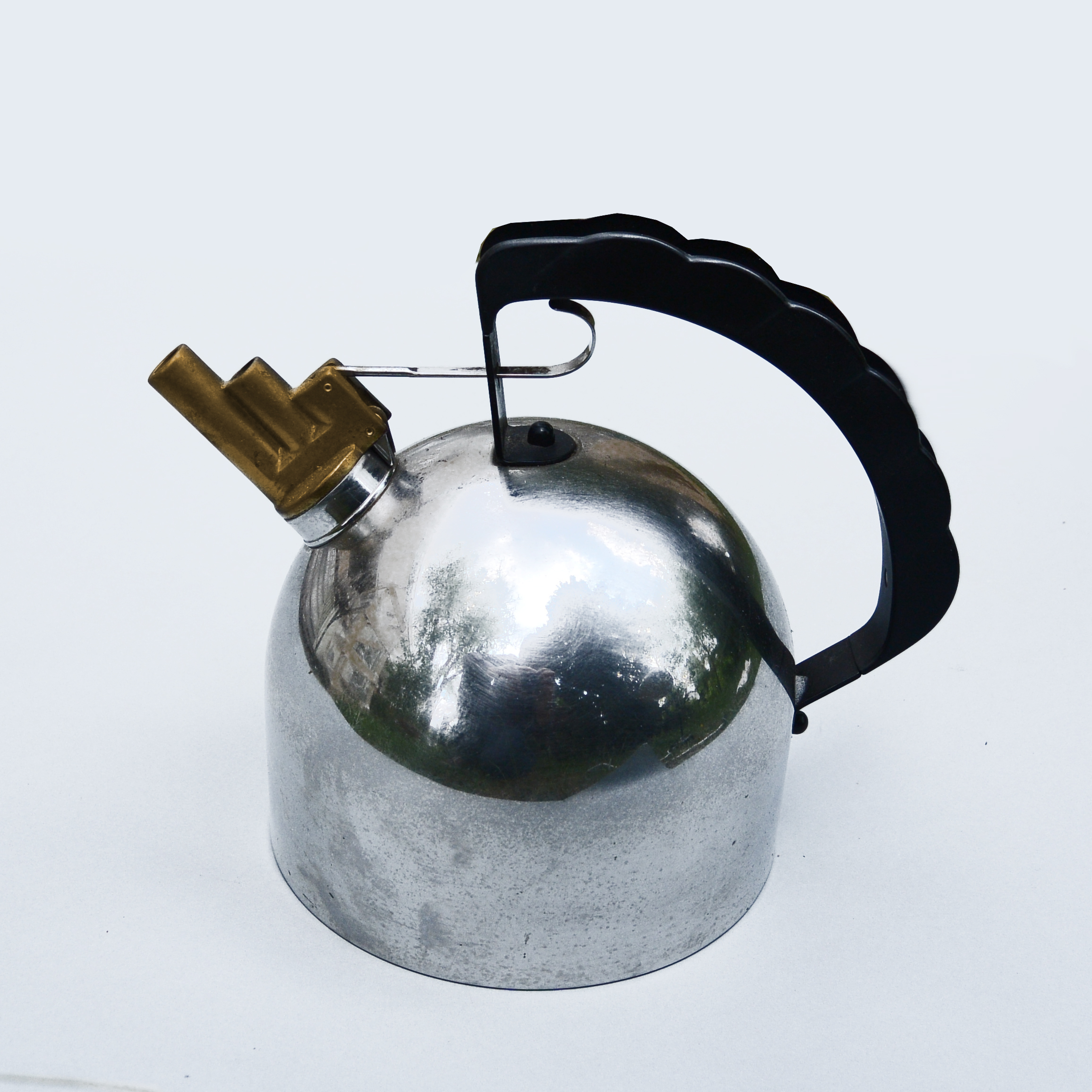 9091 (Bollitore) for Alessi, 1983